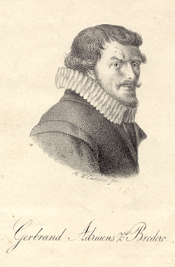 This portrait of Bredero is made by Hendrik Willem Caspari. Digitalized by Digitale Bibliotheek Nederlandse Literatuur (Digital Library Dutch Literature) The DBNL has given permission to use this digitalization of this portrait from their website in Wikipedia.